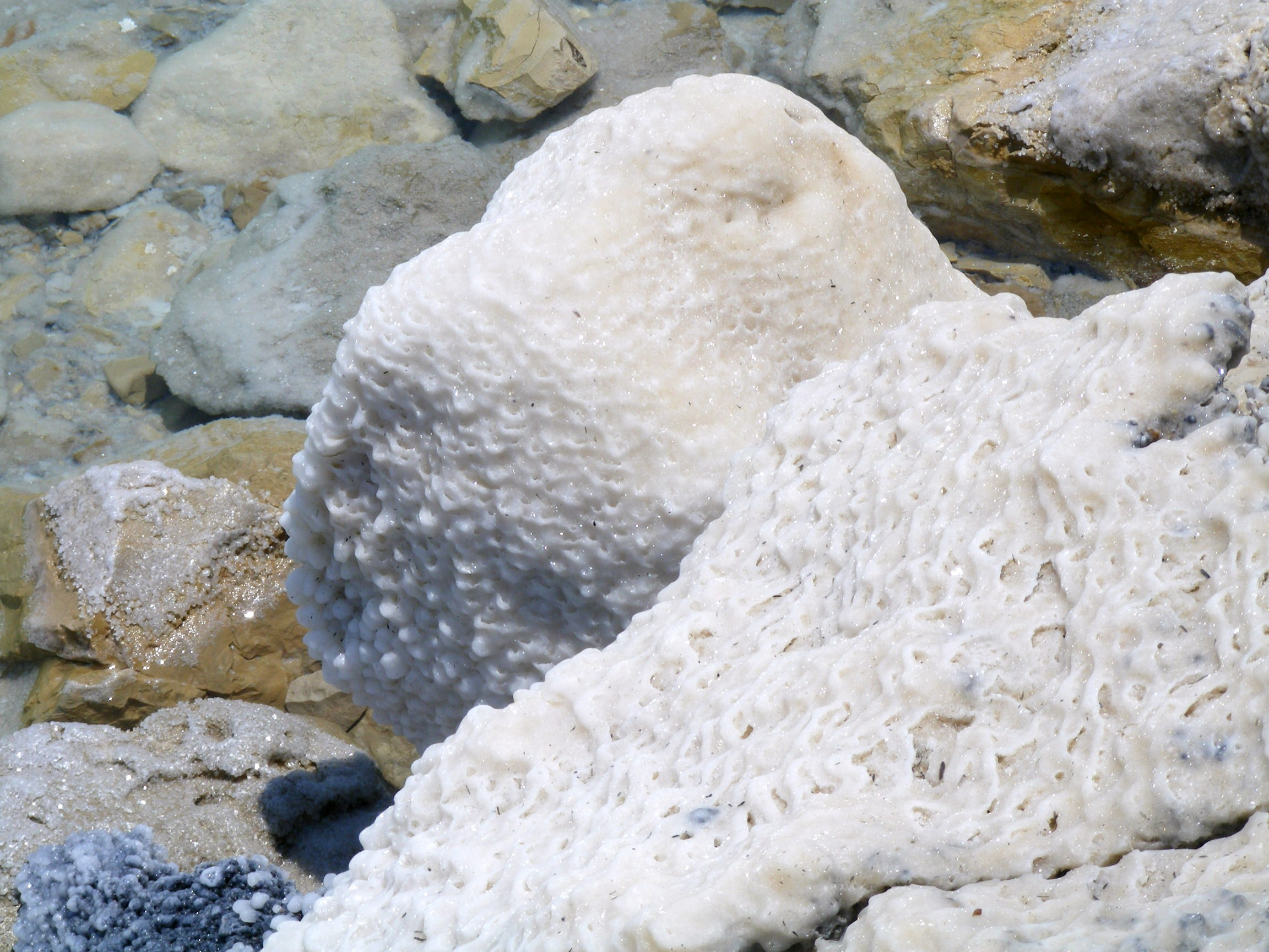 Salty stone at Dead Sea